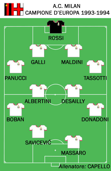 AC Milan lineup, AC Milan vs. FC Barcelona 4-0, 18 May 1994